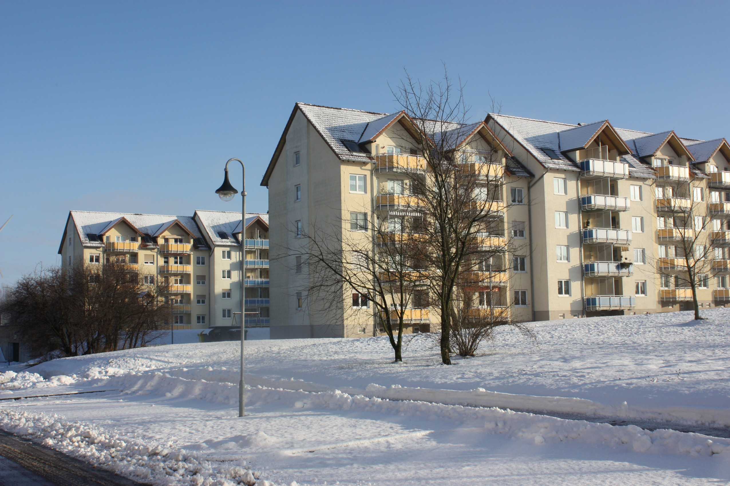 The new housing estate "Lehbreite"